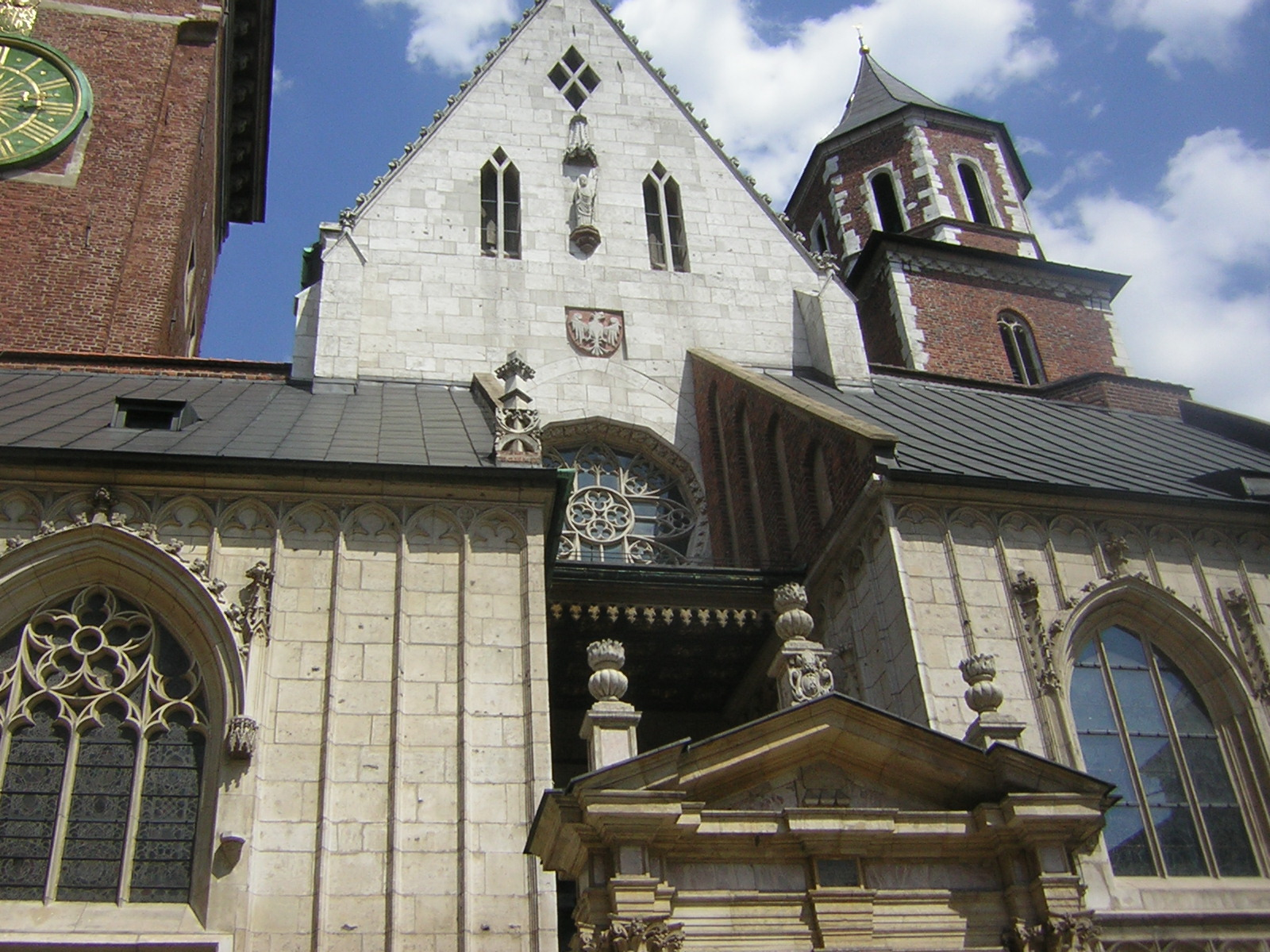 Wawel Cathedral